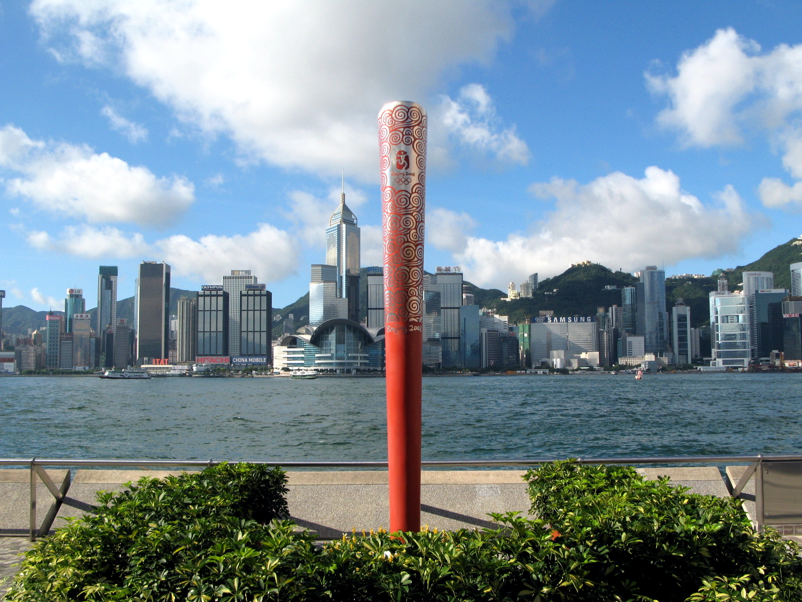 祥雲火炬雕塑 Olympic Torch Model in Hong Kong